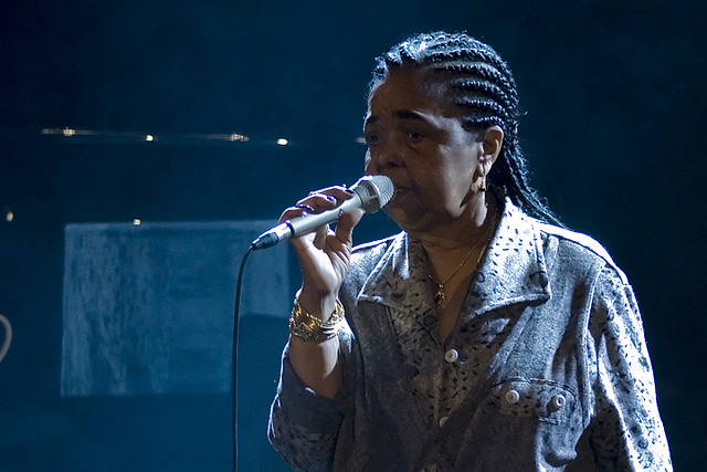 Cinema São Jorge - 26.11.2008 Copyright © akaTolan. All rights reserved. Please note that the fact that "This photo is public" doesn't mean it is public domain or a free stock image. Therefore, its use without written consent by the author is illegal and punished by law.